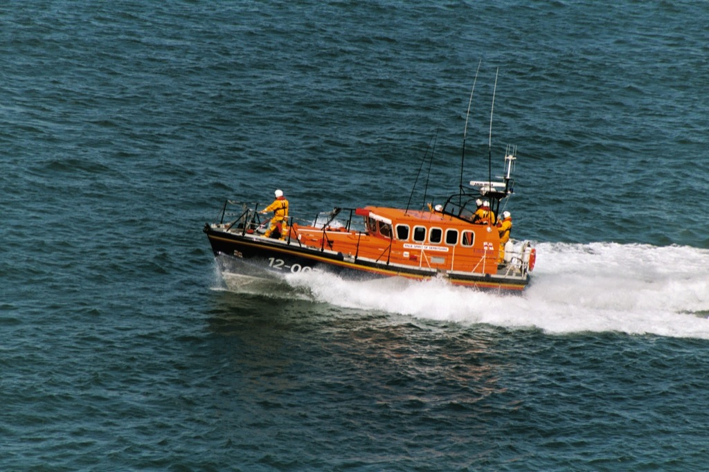 RNLI Mersey Class lifeboat 12-007 Spirit of Derbyshire, the Ilfracombe Lifeboat.